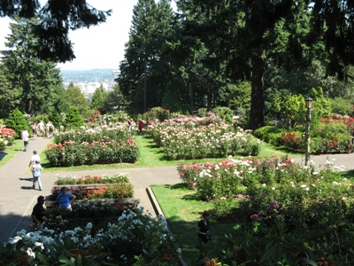 International Rose Test Garden